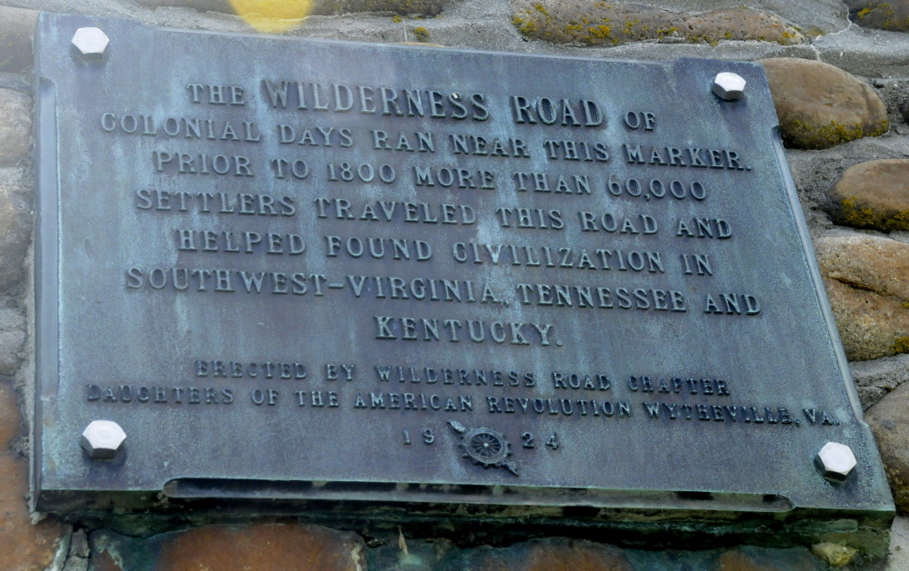 Plaque located on one of three sides on the Ft. Chiswell historic marker erected by local DAR chapters in 1924. This plaque is about the history the Wilderness Road which passed near this place in colonial times.